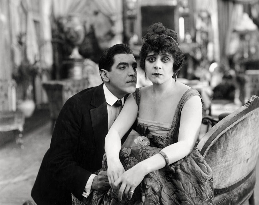 Alan Roscoe (aka Albert Roscoe) and Theda Bara in Camille - cropped screenshot